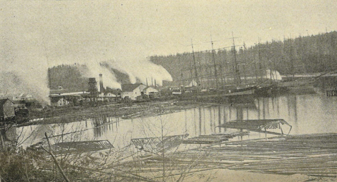 Sawmill at Port Ludlow, Washington from brochure Seattle and the Orient (1900), one of a group of photos collectively captioned "The Puget Lumber Co.'s two big mills—the upper one at Port Gamble and the lower one at Port Ludlow." The photo is not individually captioned.